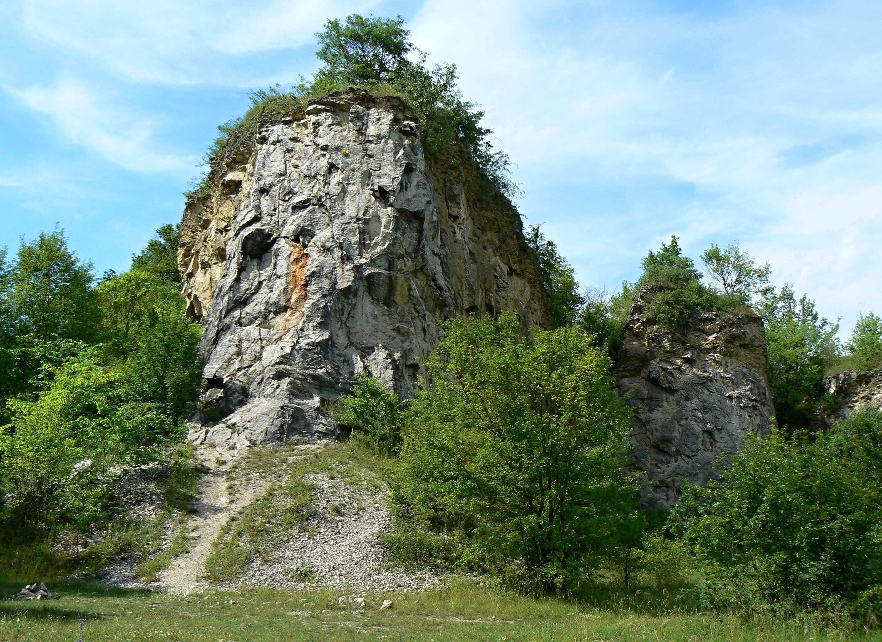 Kobyla (old quarry) is a part of nature reserve Kobyla and Landscape Park Český kras, Beroun District